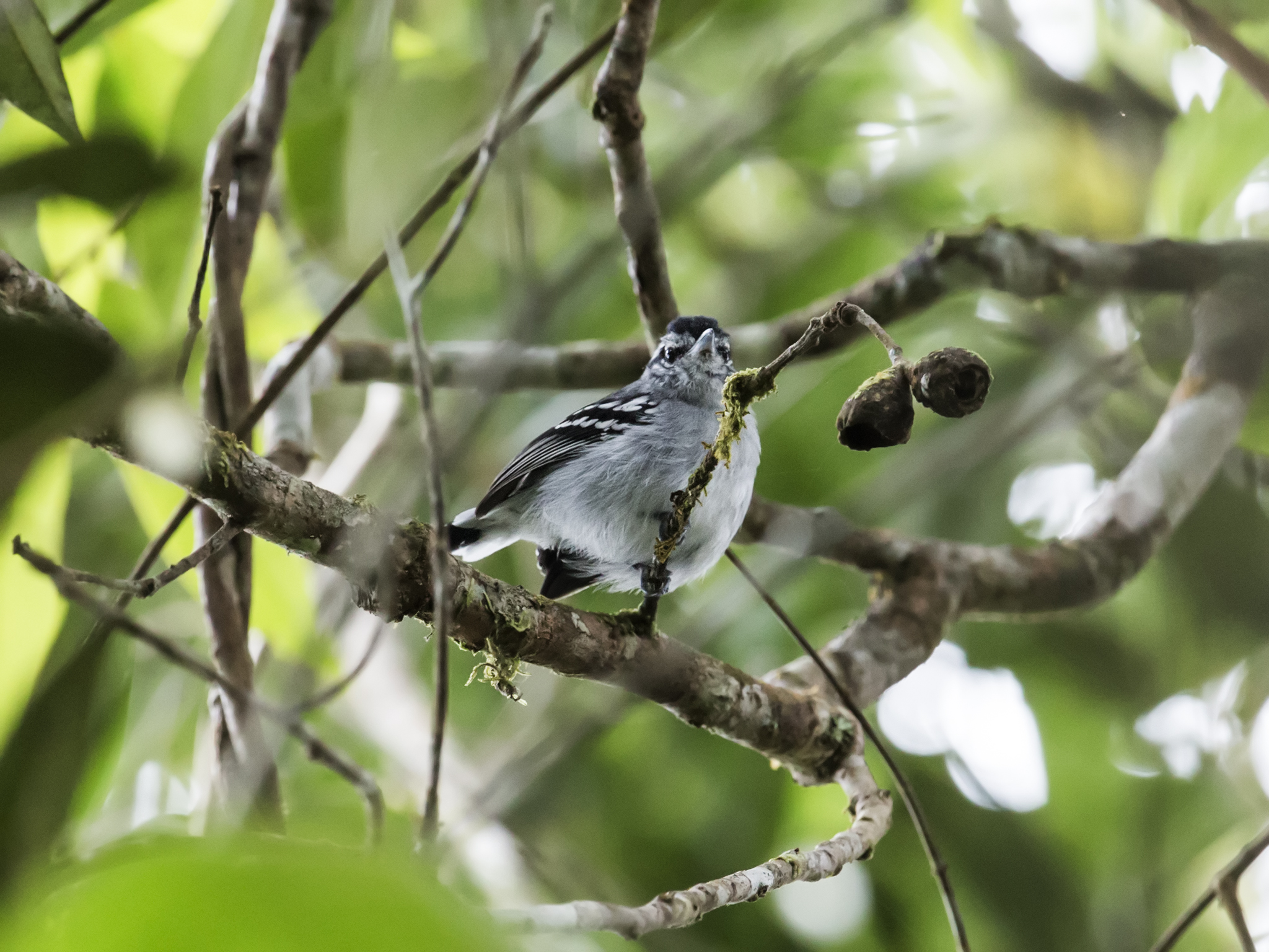 A male Ash-throated-Antwren from Quebrada Mishquiyacu, Moyobamba, San Martín, Peru.